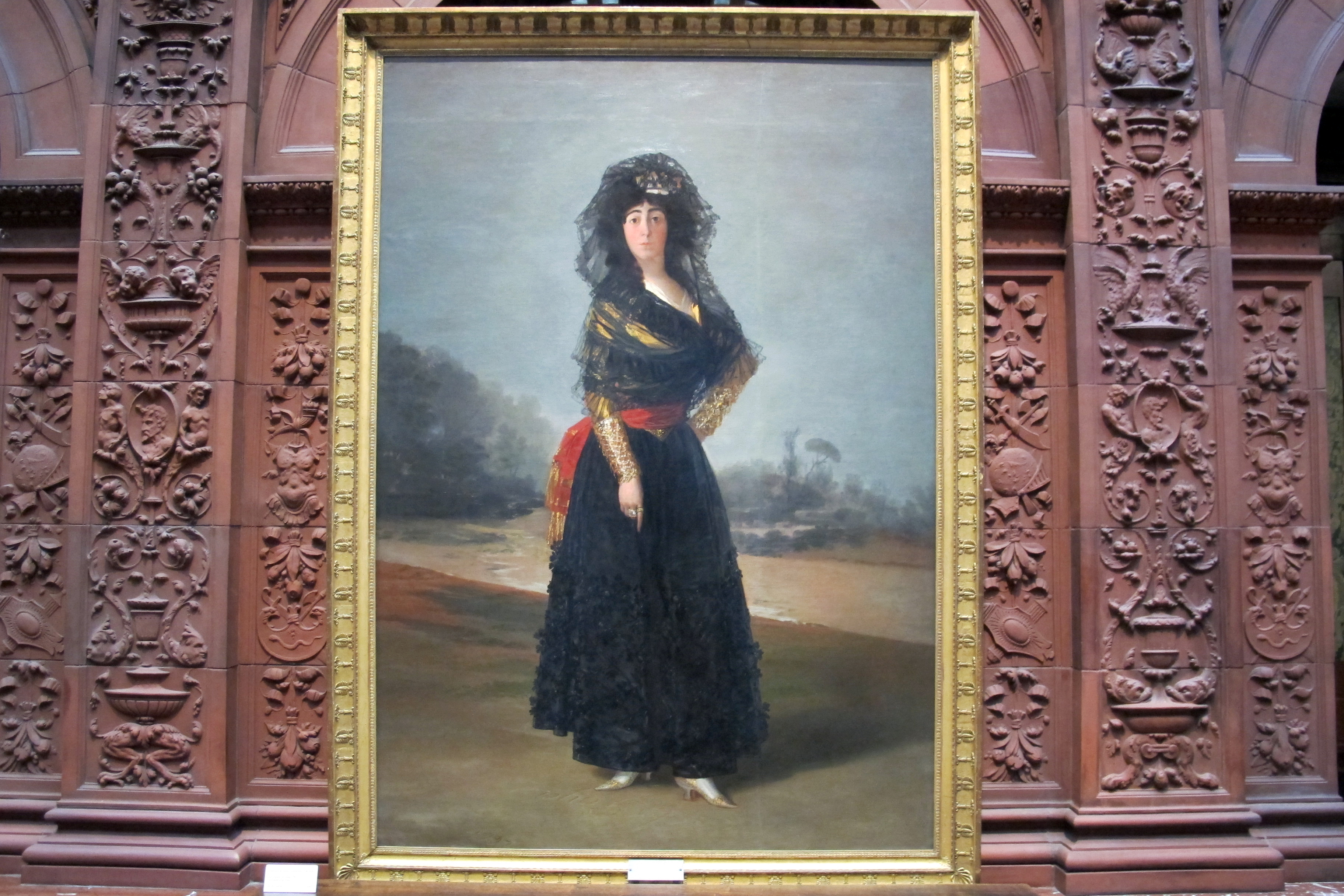 Spanish paintings in the Hispanic Society of America